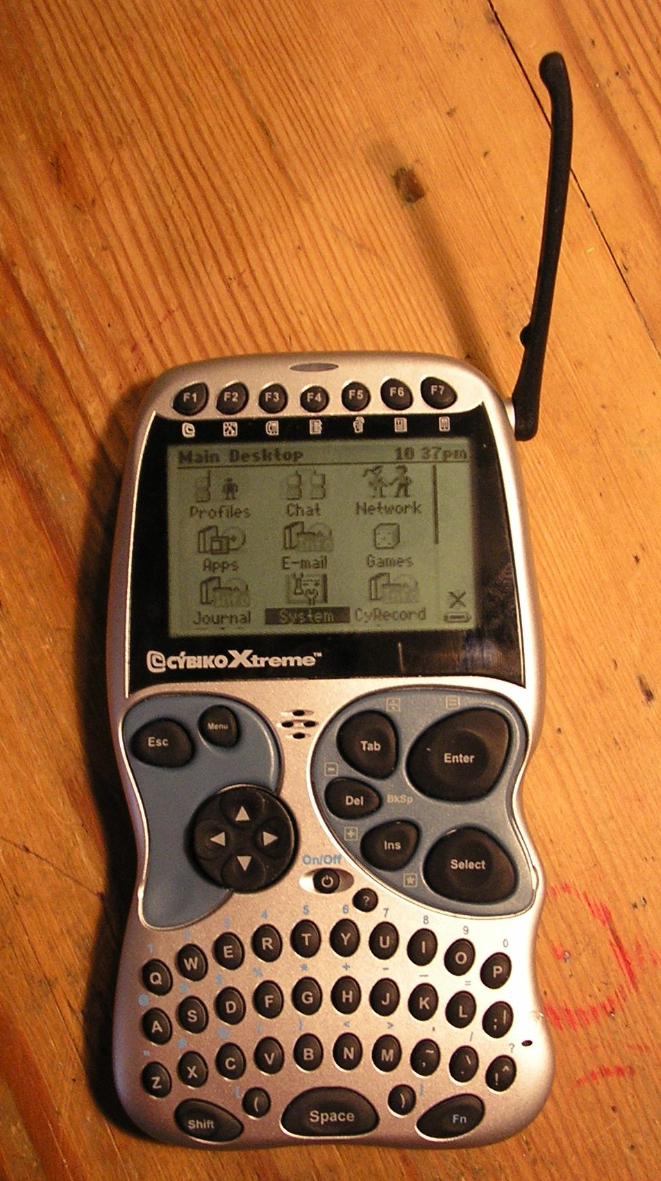 Cybiko Xtreme with antenna folded up.